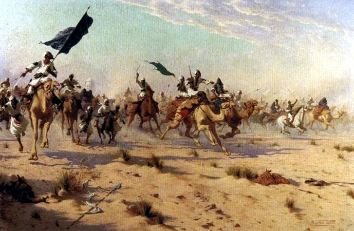 The Flight of the Khalifa after his defeat at the battle of Omdurman, 2nd September 1898. Oil on canvas